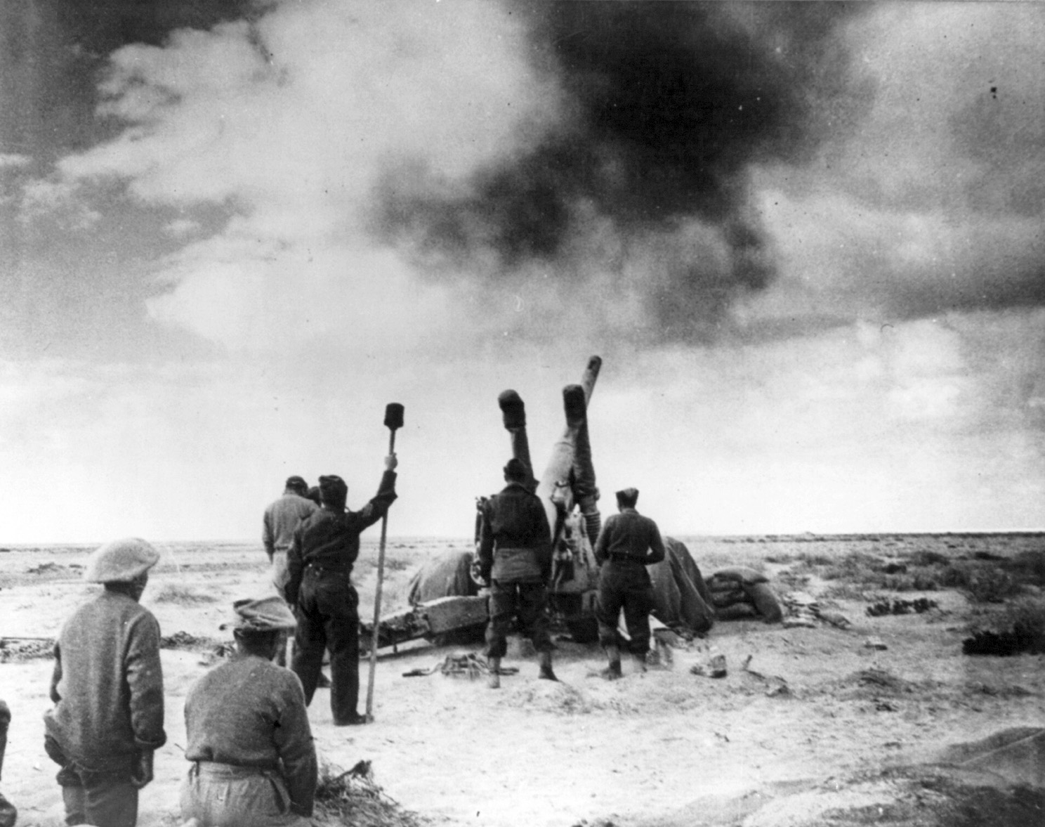 The British offensive in Libya. Artillery shelling enemy position. Official British Army photo No. BO-667 [BM 7015].